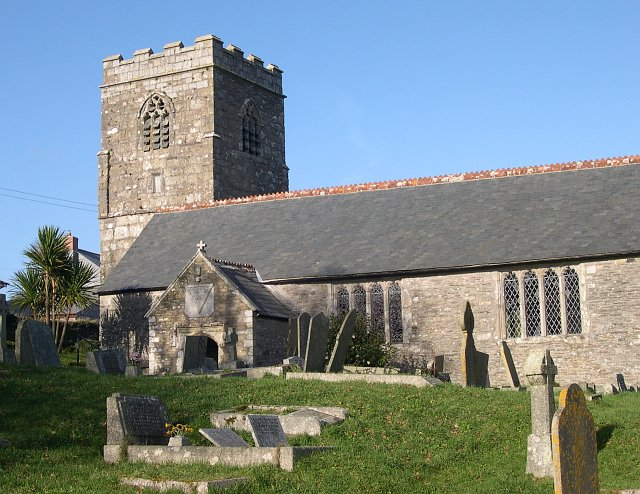 Saint Sampson's Church, Golant. This church has its origins in the 13th century. There is a holy well just outside the porch.